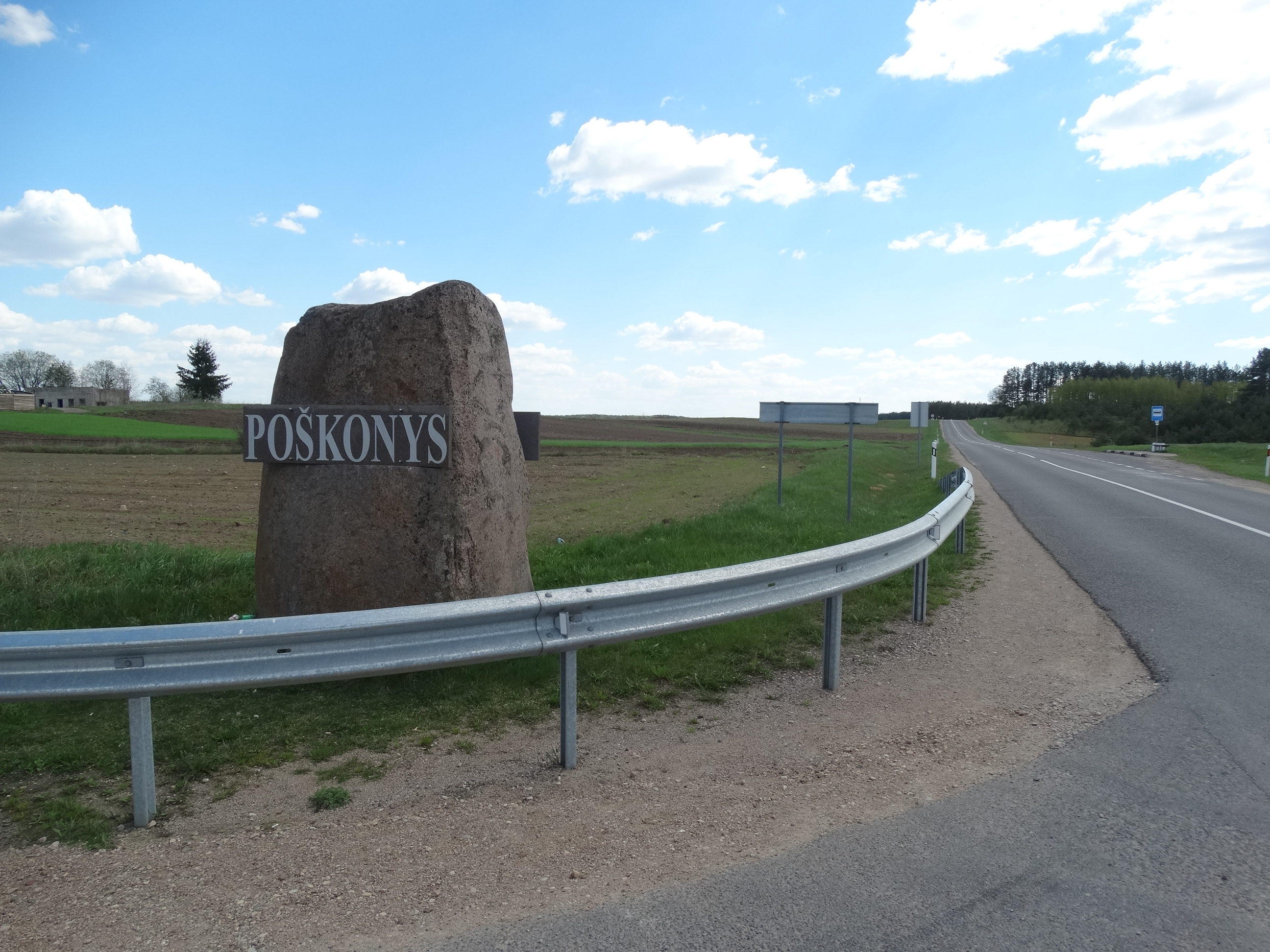 Stone in Poškonys, Šalčininkai District, Lithuania